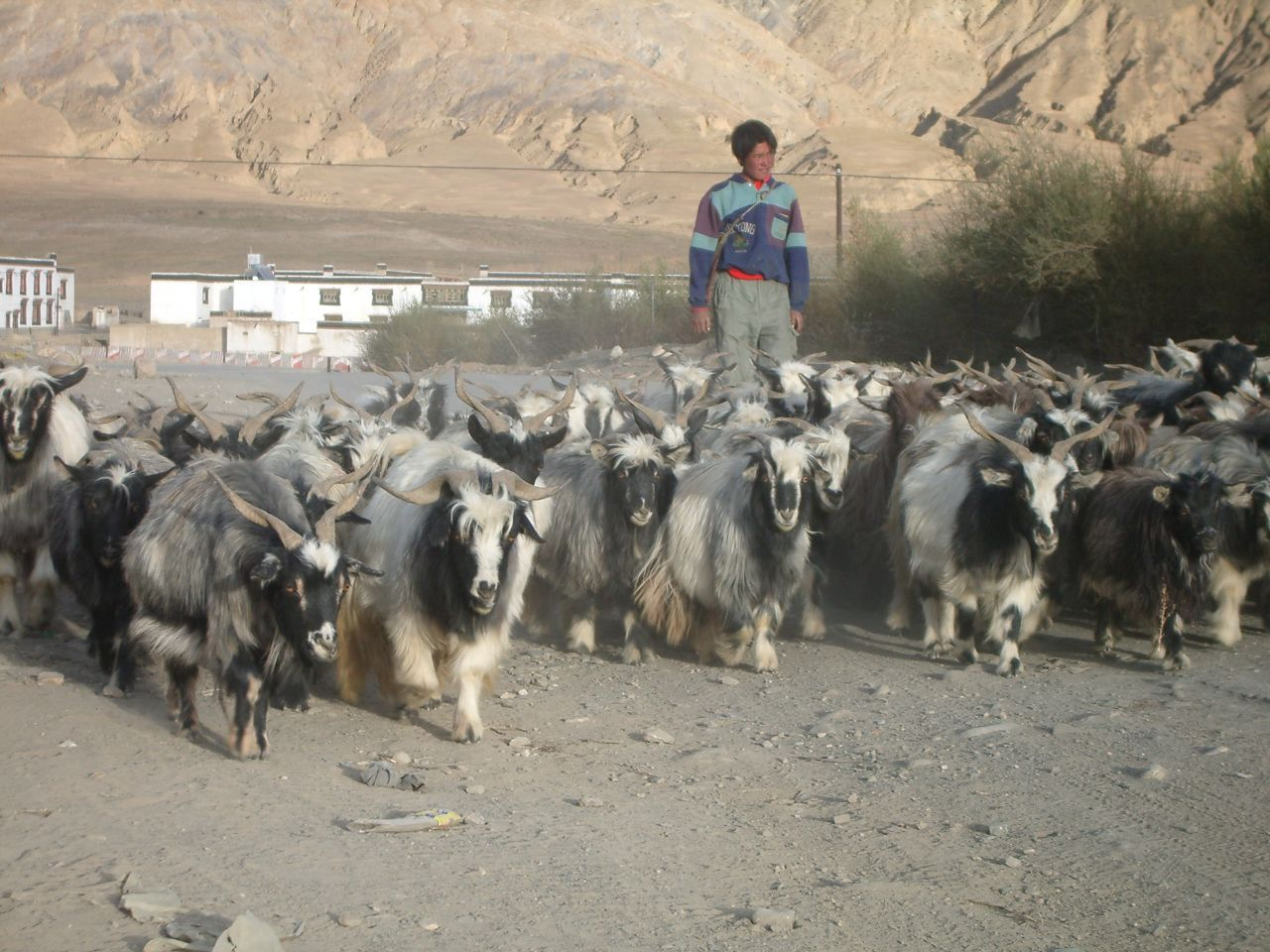 A herd of Tibetan goats and goatherd.